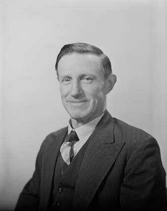 A 1956 black and white portrait of Charles Adermann, MHR for Maranoa